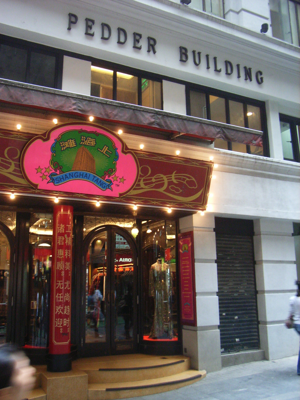 著名特色時裝店 "上海灘" Shanghai Tang, 香港zh:中環zh:畢打街, Pedder Street, Central, Hong Kong by ShingWong